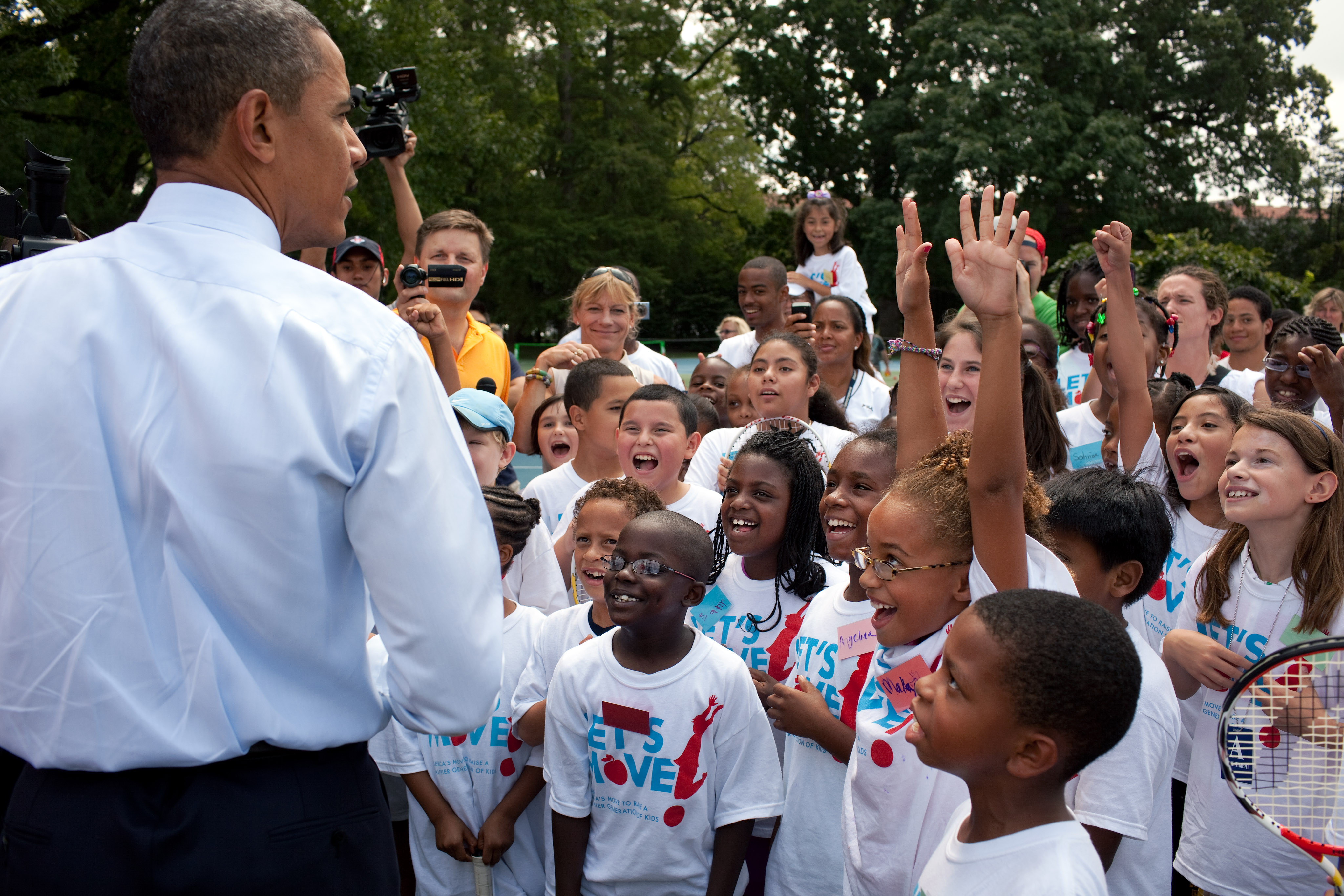 President Barack Obama talks with kids attending a Let's Move! tennis clinic on the South Lawn of the White House, Aug. 3, 2010. (Official White House Photo by Pete Souza)